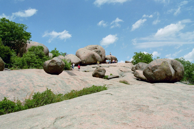 Granite boulders 1.5 billion years old at Missouri's Elephant Rock State Park